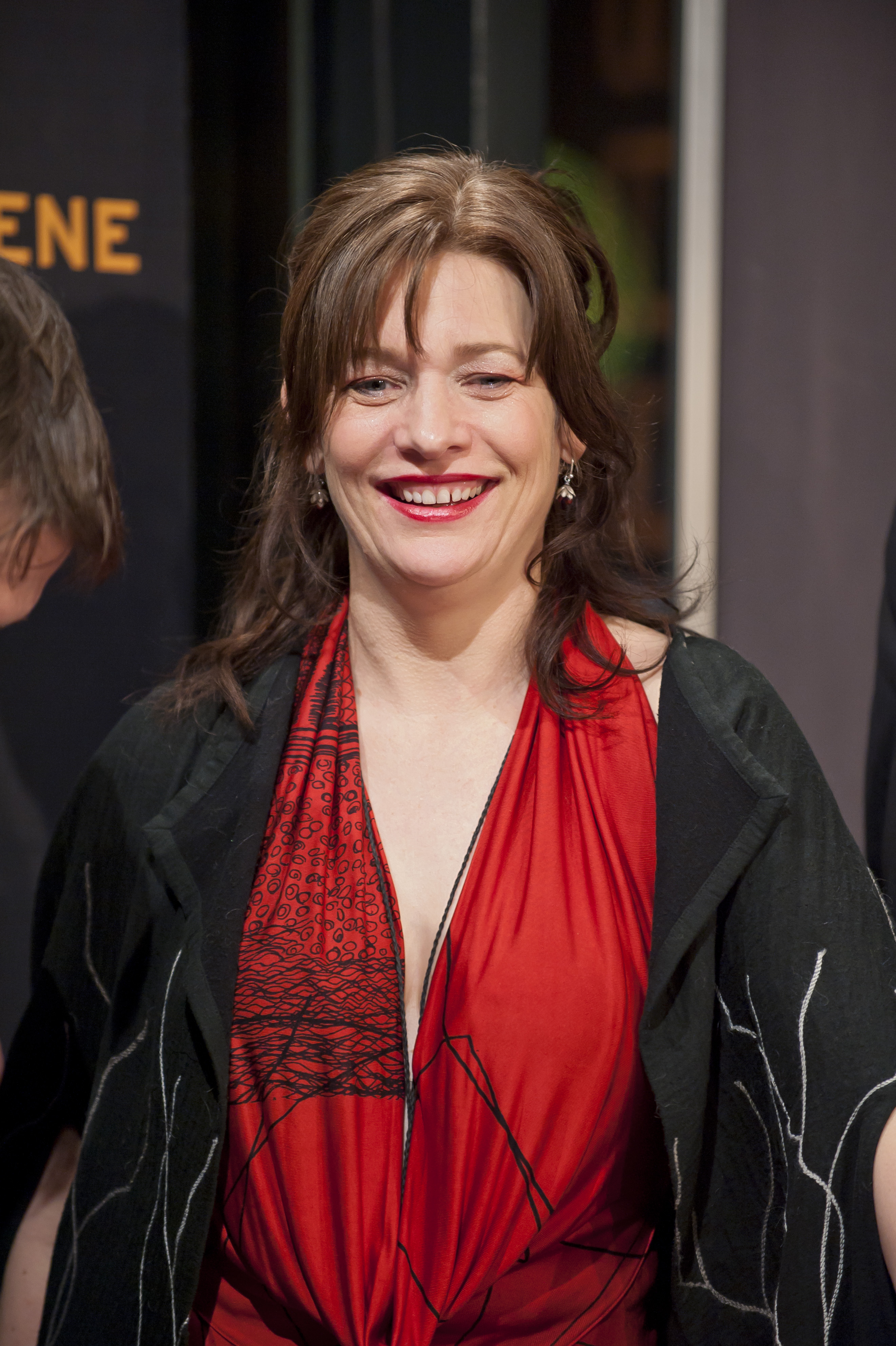 New Zealand actress Kerry Fox at the Berlin Film Festival 2009